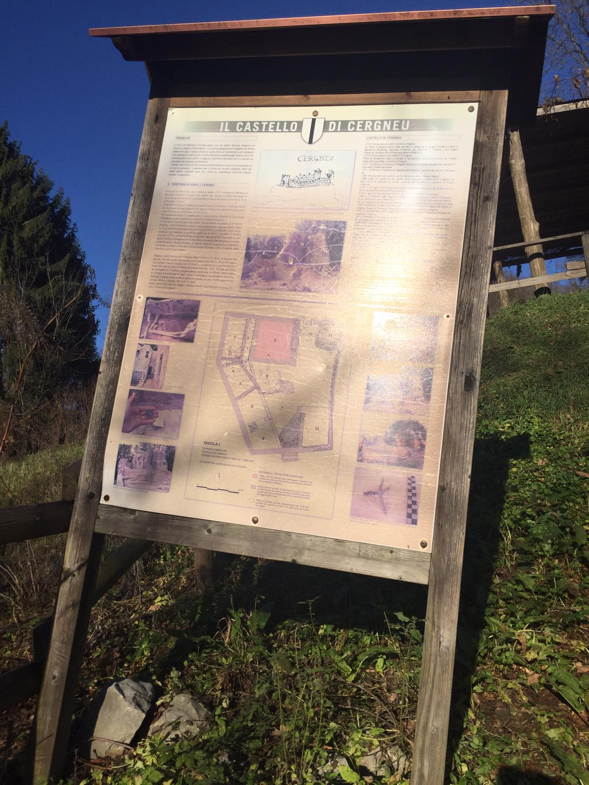 cergneu